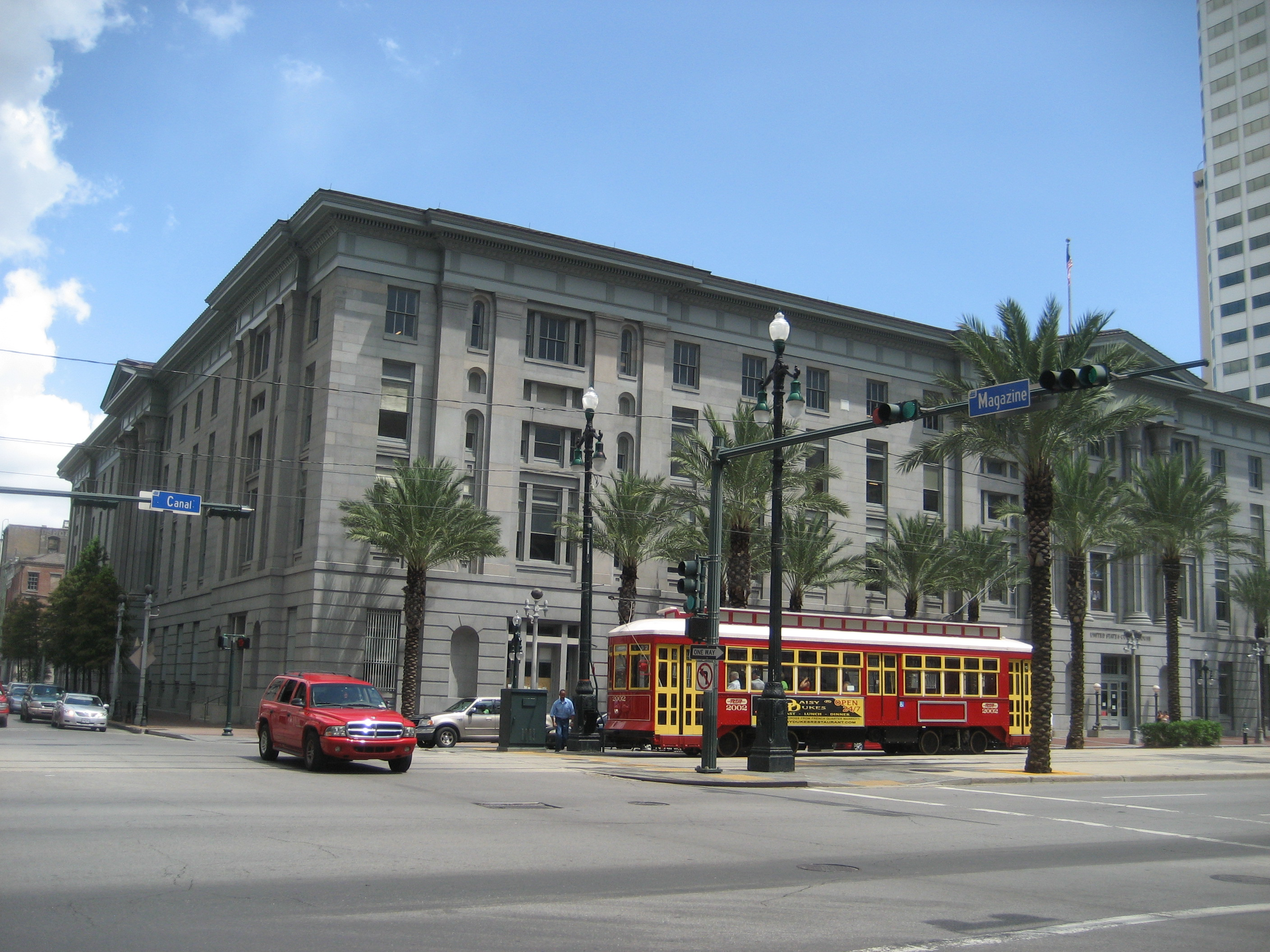 Canal Street, New Orleans Central Business District